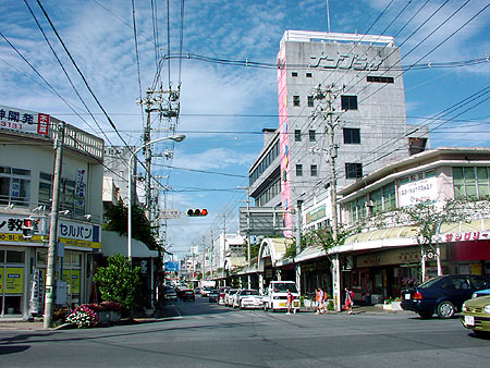 A street in downtown Nago, Okinawa.